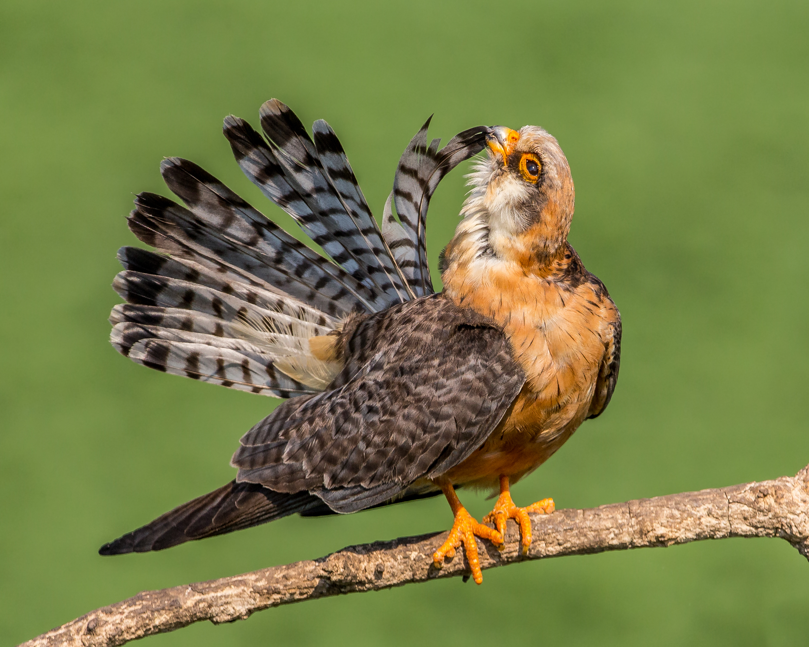 Just back from a great stay in Hungary. Awesome birds and this company has some stunning hides (blinds).